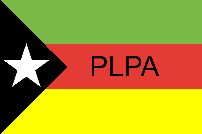 Flag of Partidu Liberta Povu Aileba PLPA, East Timor